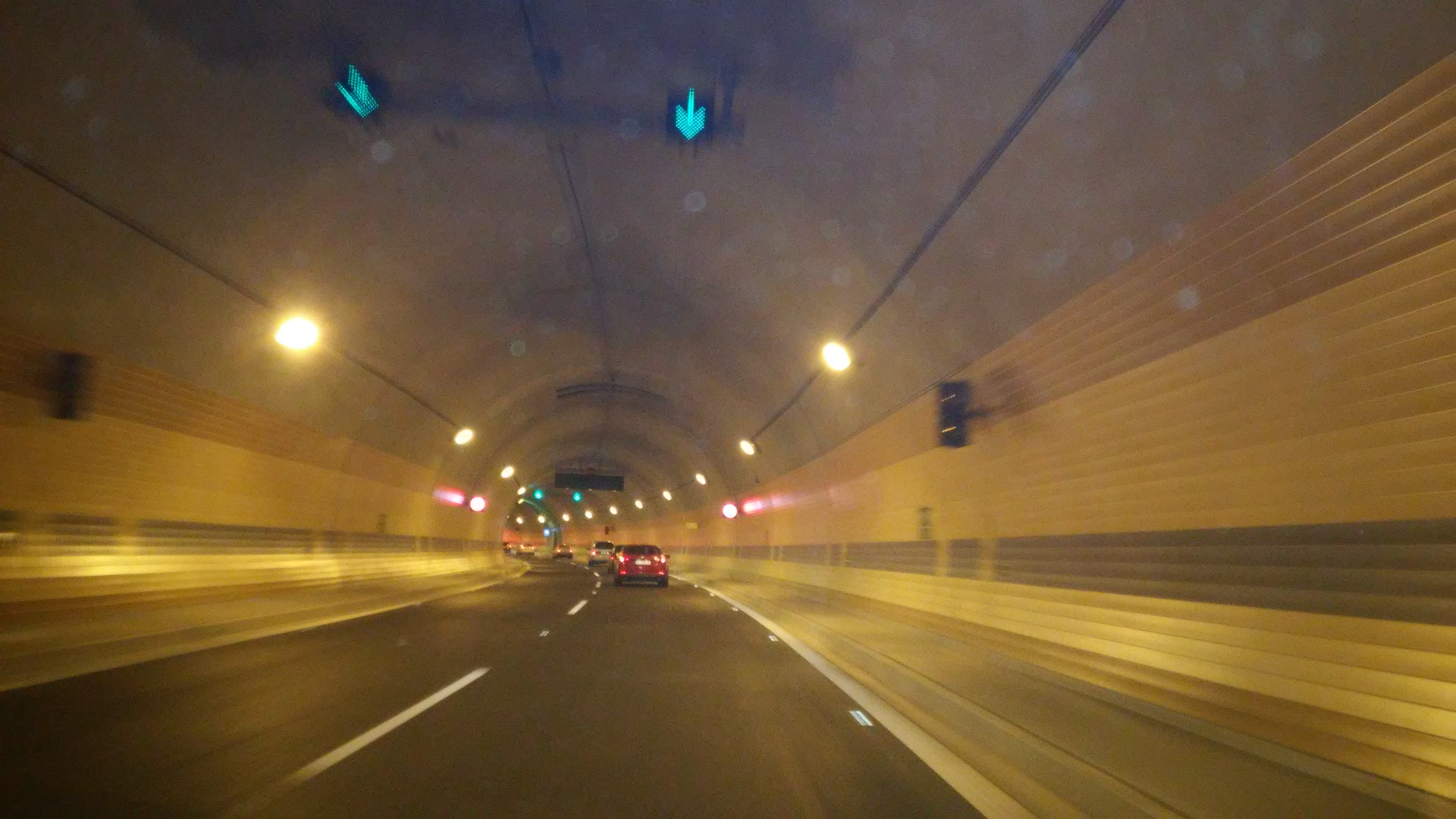 Bubenečský tunnel, part of the Blanka tunnel complex (5,5 km long in total) - the longest city tunnel complex in Europe